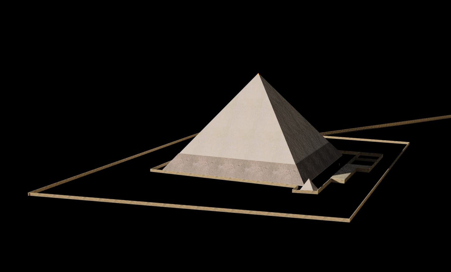 Pyramid of Djedefre